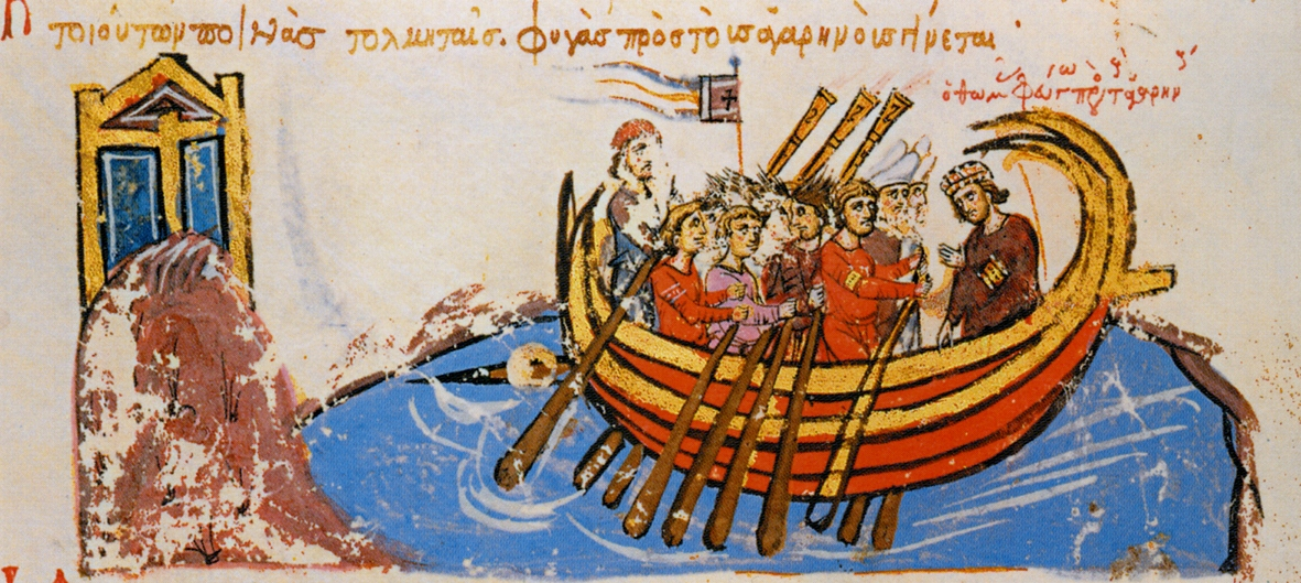 Skyllitzes Matritensis, fol. 29v, detail. Miniature: Thomas the Slav flees to the Arabs. Text from the Chronicle of John Skylitzes: "... Here he entered the service of a senator but became so undisciplined and arrogant that he even dared to insult his master's marriage bed. Caught in the act, he could not beat reproach and he was terrified of the kind of punishments reserved for such crimes, so he fled to Hagarens. ..." (Translated by John Wortley, in: John Skylitzes: A Synopsis of Byzantine History, 811-1057: Translation and Notes, p. 32) References: Ioannis Scylitzae Synopsis Historiarum. Editio Princeps. Rec. Ioannes Thurn, p. 29, in: Corpus Fontium Historiae Byzantinae 5 Series Berolinensis, 1973 Tsamakda V.: The illustrated chronicle of Ioannes Skylitzes in Madrid, p. 70 Grabar A., Manoussacas M.: L'illustration du manuscript de Skylitzes de Madrid, p. 33